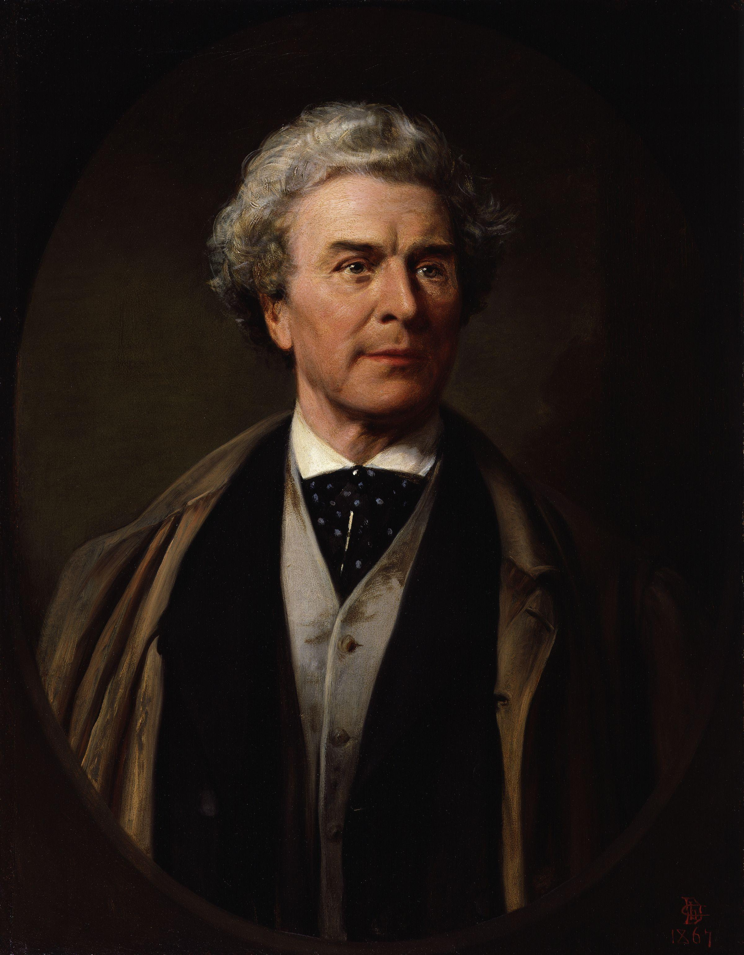 Thomas Hare, by Lowes Cato Dickinson (died 1908), given to the National Portrait Gallery, London in 1918. All images in this batch have been confirmed as author died before 1939 according to the official death date listed by the NPG.